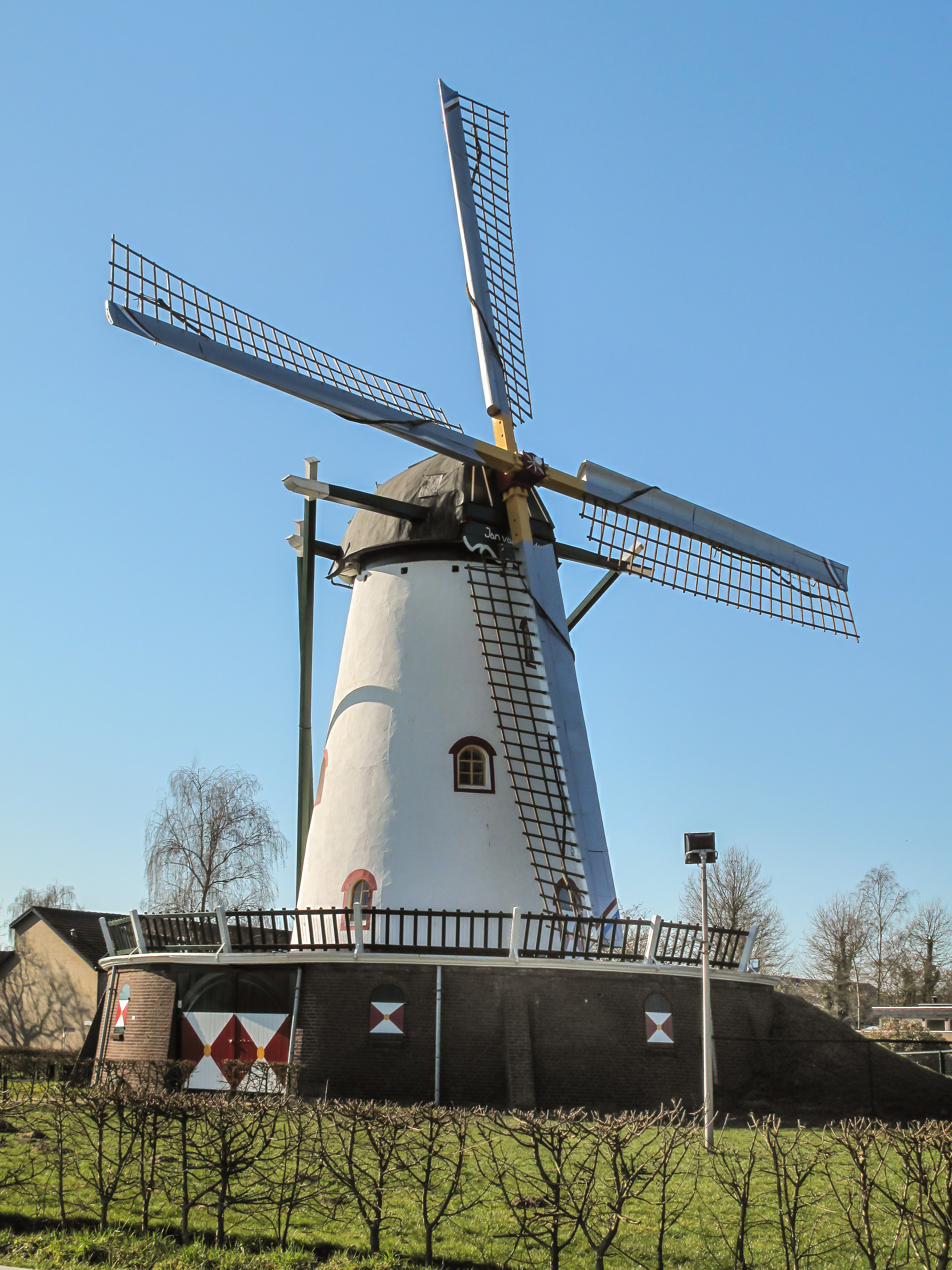 Cuijk, windmill